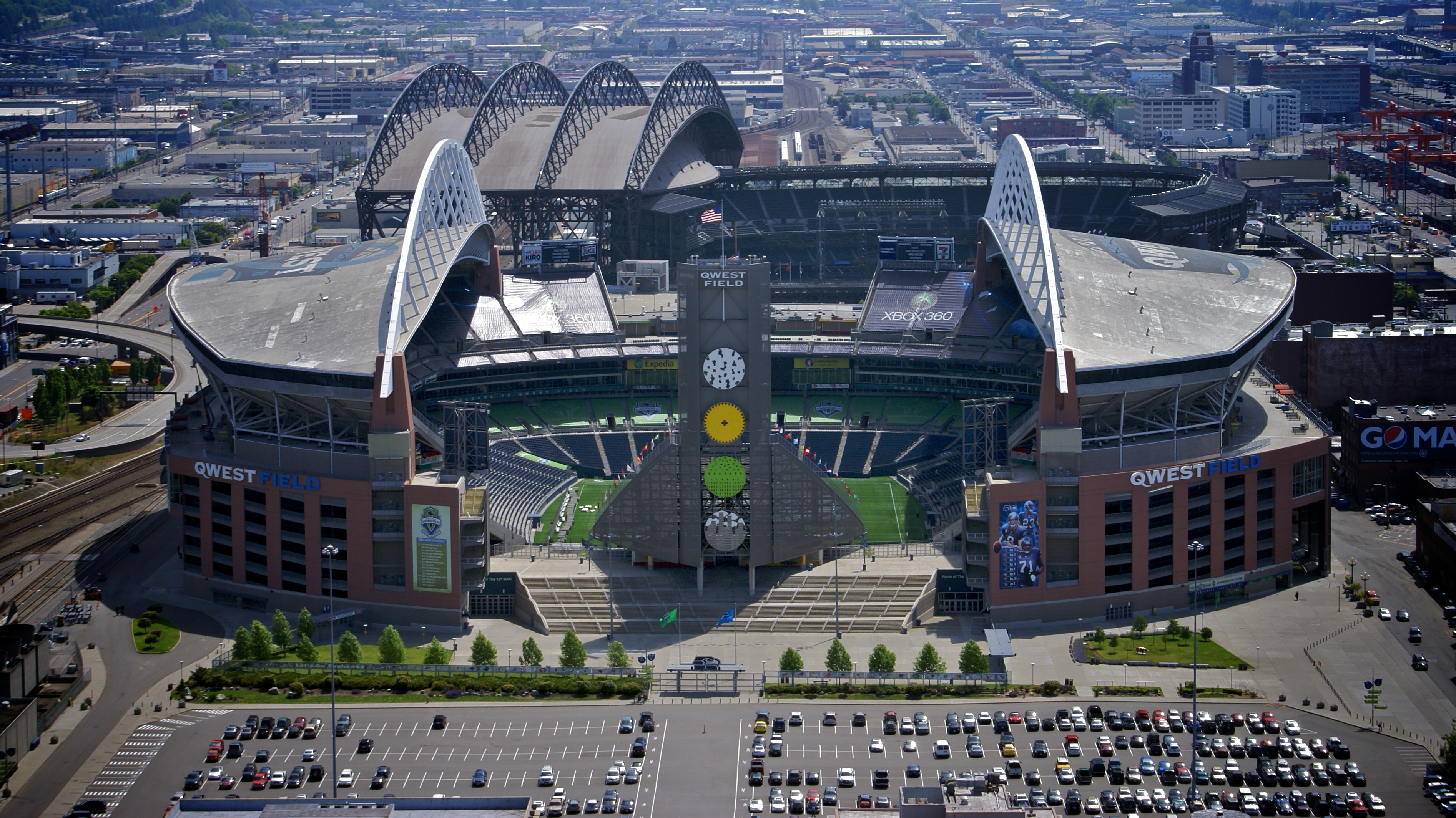 Qwest Field, Seattle, USA. Home of the Seattle Seahawks and Seattle Sounders FC.